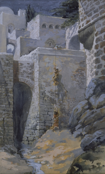 The Flight of the Spies, c. 1896-1902, by James Jacques Joseph Tissot (French, 1836-1902) or follower, gouache on board, 11 9/16 x 6 7/8 in. (29.5 x 17.6 cm), at the Jewish Museum, New York